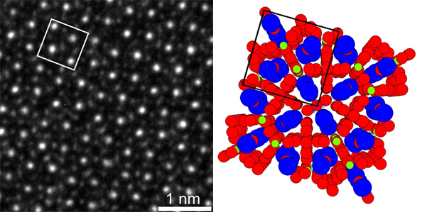 High Resolution Transmission Electron Microscopy (TEM) and Crystal Structure of Nd2Fe14B